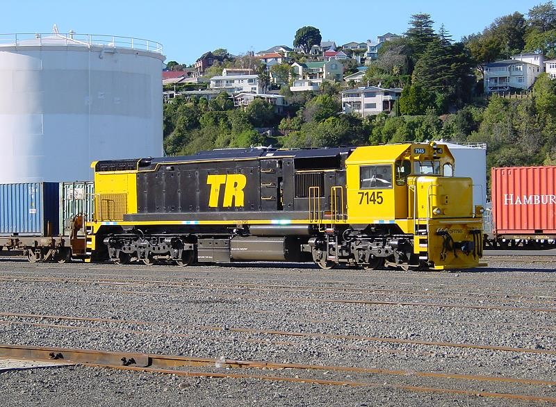 NZR DF class (1979) - DFT 7145 in Ahuriri Yard, Napier - 8 June 2003 Photo by: Joseph Christianson Source: NZ Rail Volume 3